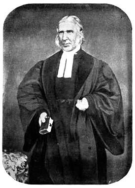 Thomas Burns was minister, colonialist in Otago and founder from Dunedin, New Zealand.